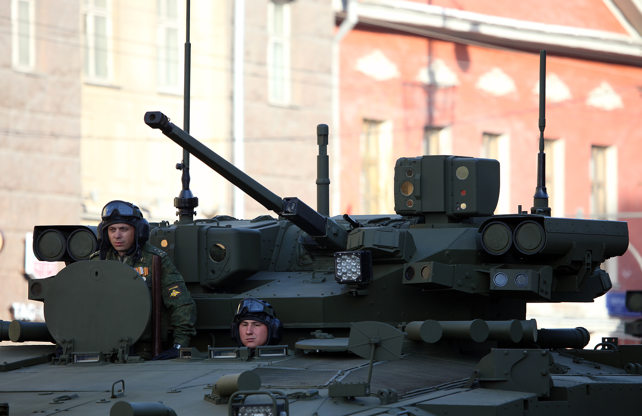 Infantry fighting vehicle object 695 Kurganets-25 (in the streets of Moscow on the way to or from the Red Square)